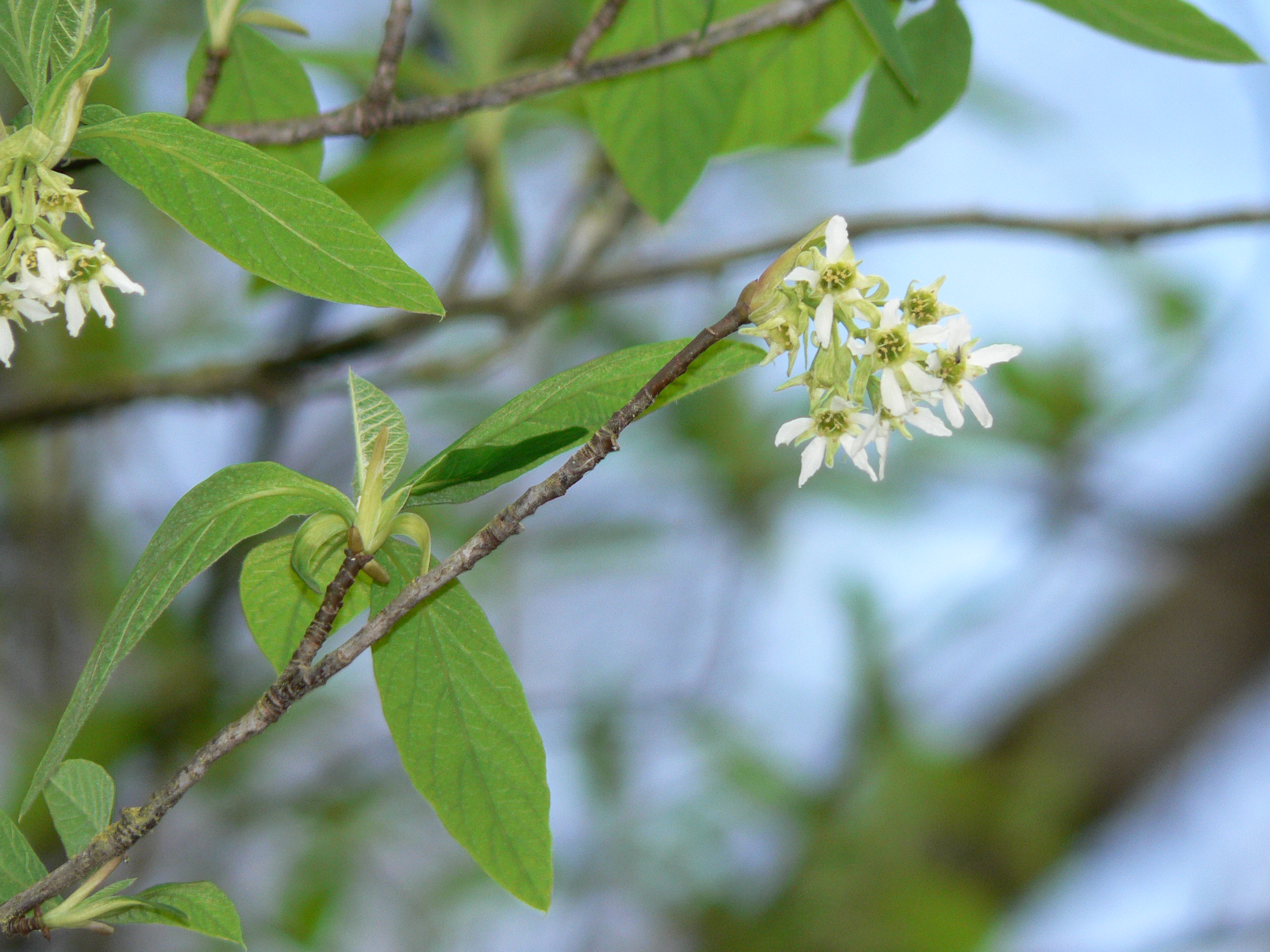 Indian plum blossoms and leaves